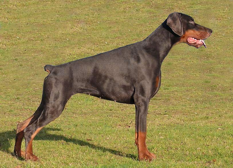 Dobermann with natural ears and tail cut off